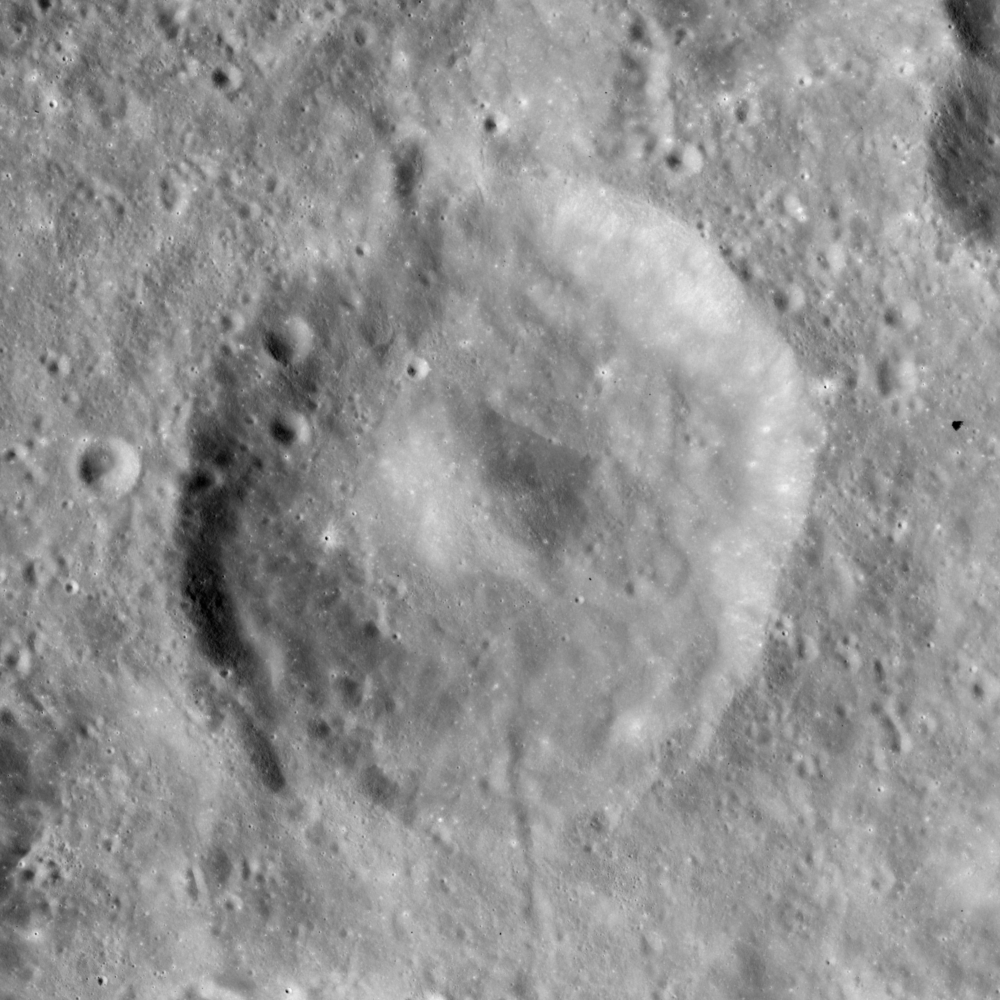 Behaim crater, on the moon.